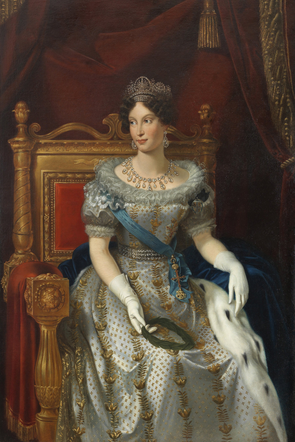 Marie Louise of Austria, duchess of Parma and Piacenza